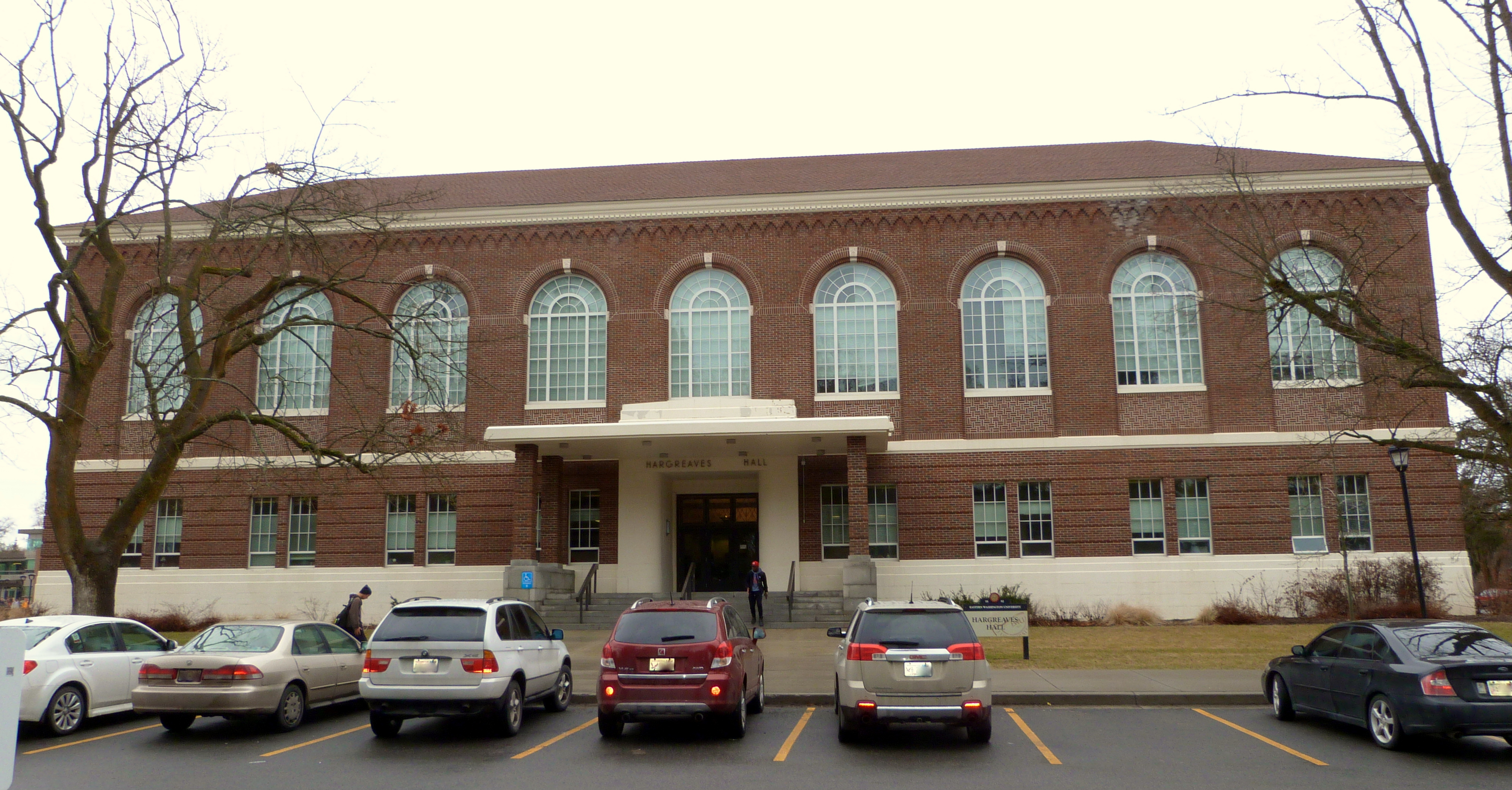 Hargreaves Hall (built 1940) at Eastern Washington University in Cheney, Washington, United States, is listed as a contributing resource in the Washington State Normal School at Cheney Historic District. The district is listed on the US National Register of Historic Places.